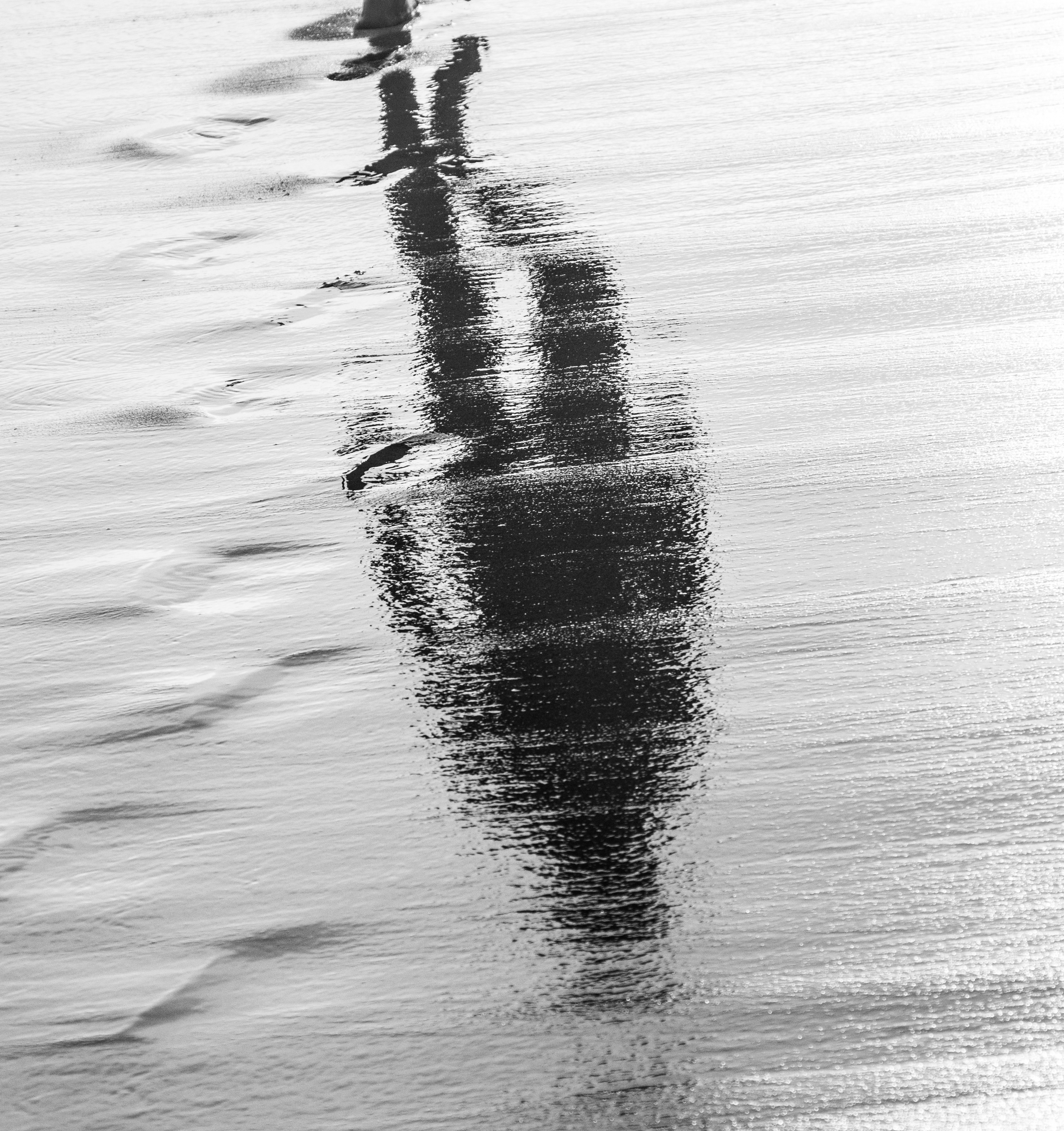 A reflection on sand and water.